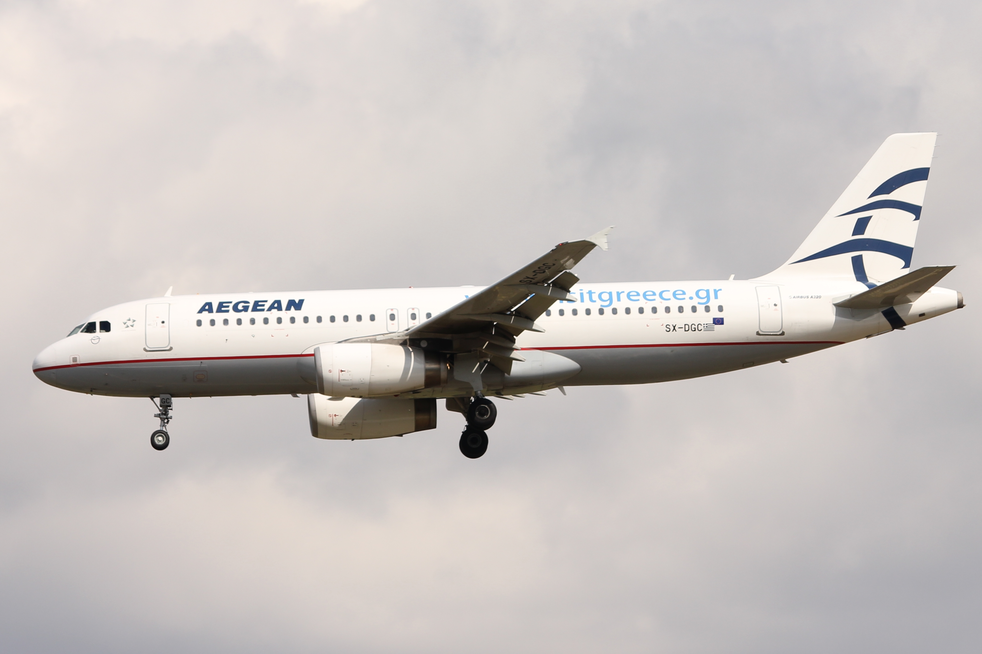 Aegean A320 with visitgreece.gr Sticker lands at Frankfurt intl. Airport.